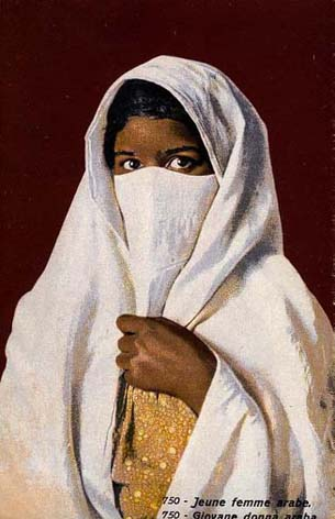 750 - Young Arab woman.